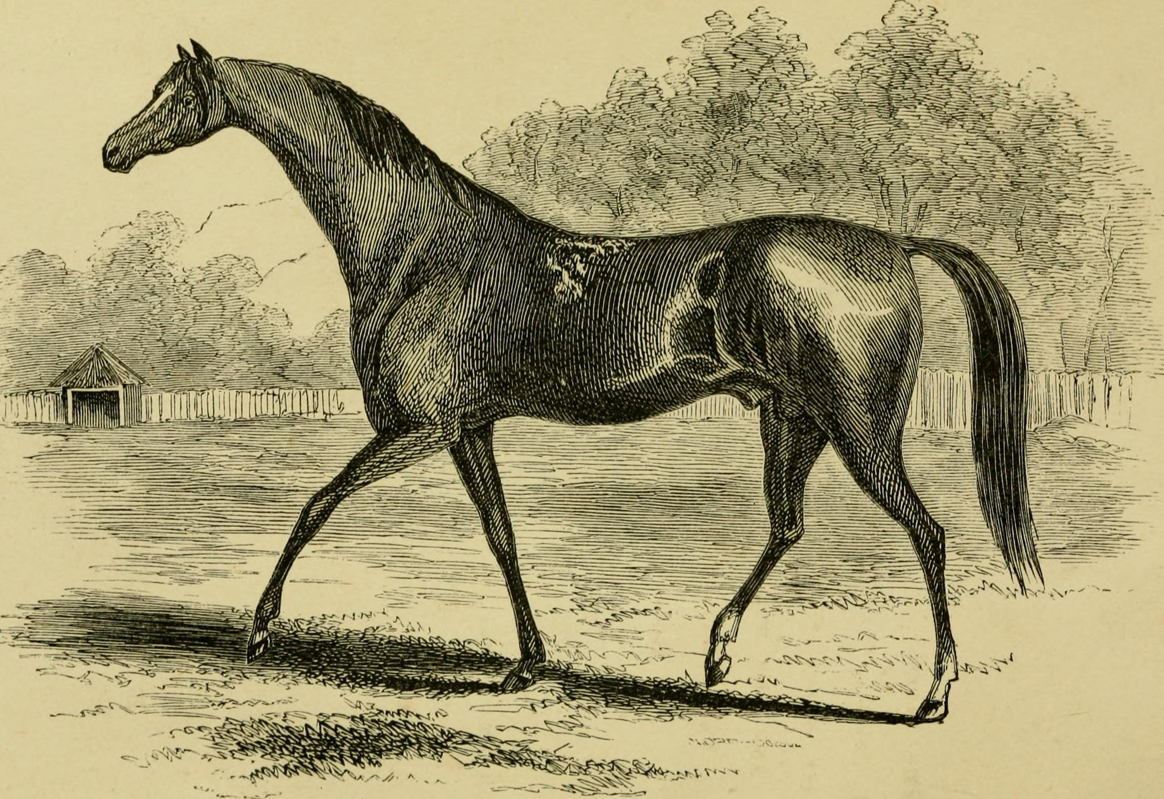 Title: The domestic animals : from the latest and best authorities. Illustrated Year: 1860 (1860s) Authors: Storke, Elliot G., 1811-1879 Subjects: Horses Domestic animals Publisher: Auburn, N.Y. : Auburn publish. Co. Text Appearing Before Image: AT WHICH IT IS OFFERED.that it will be favorably rpceived by every lover of good books. Many of our first scholars,divines and centlemen who have examined the work, have given it their UNQUALIFIEDAPPROBATION. nVIFOROT KETAIL. PRICES:In 2 Vols., Morocco, irilt backs and side dies, Marble Edges, . .$S i0Full Gilt Sides, and Gilt Edges, lu 00 PUBLISHED BY THE AUBURN PUBLISHING COMPANY, AUBURN, N. Y.1^ Can\assing Agents wanted for the above. Addr.ss E. G. STORRE, Publishing Agent, AUBUllX. N. Y. -A WeDster harot^ yorsry of Vetennaiy U^sdsiMCummlngs Sch^- -- eterinary MMkJlMalTufts Universit)200 Westboro RoadMr.rthRrafton.MA01536 Text Appearing After Image: THE DOMESTIC AISriMALS EMBRACING I. The Horse.—TO BEEED, BREAK, FEED, MANAGE, AND CURE II. Cattle.—THE YAEIOUS BREEDS, AND HOW TO MANAGE THEJL III. Sheep.—THEIR BREEDS, MANAGEMENT, DISEASES, ETC. IV. The Pig.—TO BEEED, FEED, CUT UP, AND CURE. V. Poultry.—THE DIFFERENT KINDS, AND TREATMENT VI. Bees.—THEIR HABITS, MANAGEMENT, ETC. PROM THE LATEST AND BEST AUTHORITIES, ILLUSTRATED. EDITED BY IC. G^. STORIiE AUBURN, N. Y.:THE AUBURN PUBLISHING COMPANY, E. G. STOEKE, PUBLISHING AGENT. 1860. Entered according to the Act of Congress, in the year 1S59, BY WILLIS W, SITTSEK, in the Clerks Office of the District Court for the Northern District of New York. C. A. AI.VOKD. STritEOTYPER AND IKIXTEK. M 1« YOEK. INDEX TO THE DOMESTIC ANIMAIS. A. PAGE Arabian 13 Alderney cattle 103 Ayrshire 99 Angus cattle 118 Abortion 164 B. Bacon, to cure 233 Wiltshire 235 Barley for the horse 40 Bantam fowls 252 Bees, classes of. 281 their wonderful instincts 282 advantages of keeping 2S3 their manage